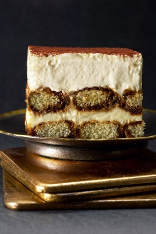 Tiramisu